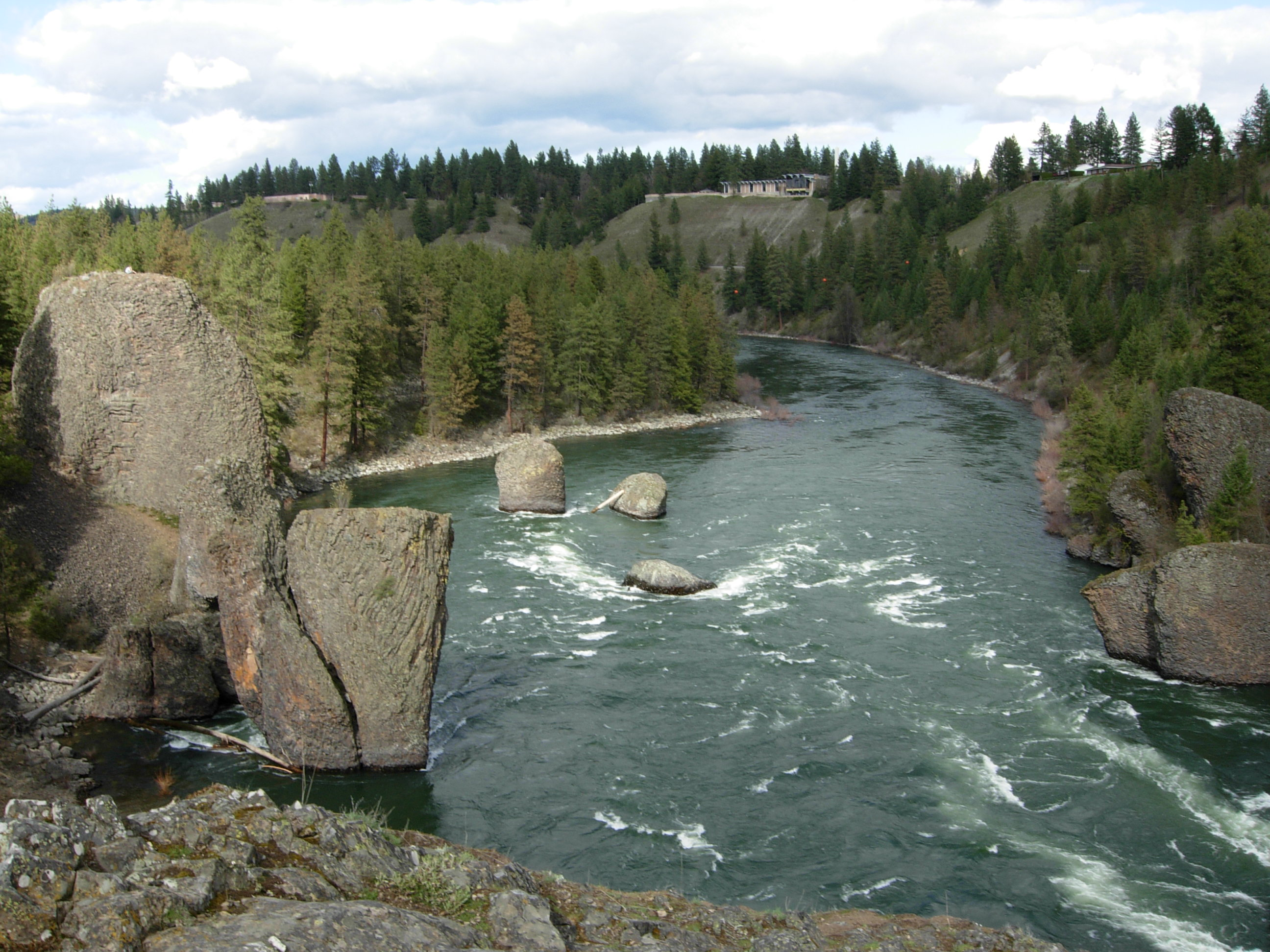 The Bowl and Pitcher formation at Riverside State Park, Spokane, Washington